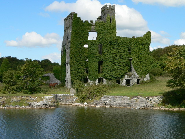 Menlough Castle On North Bank of River Corrib.